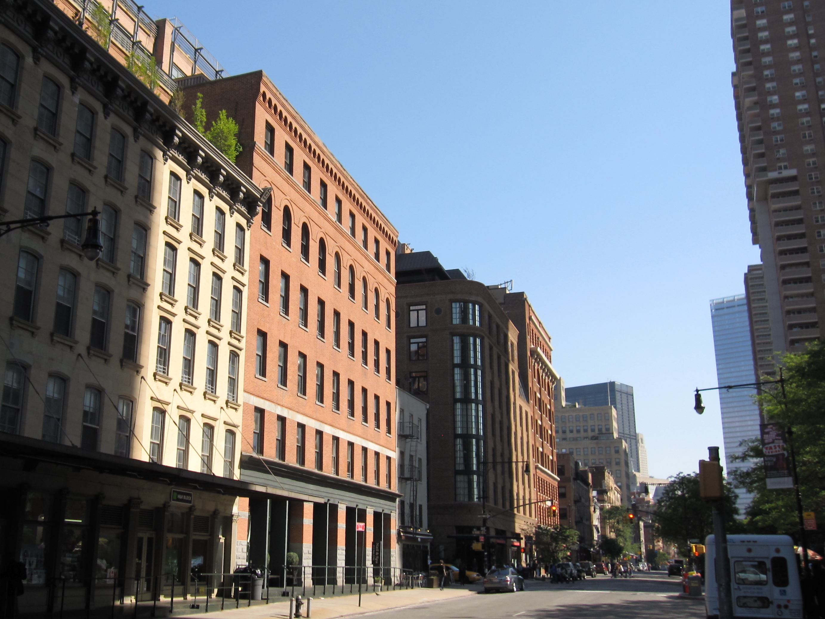 Greenwich Street close to N Moore Street looking south, in TriBeCa in New York